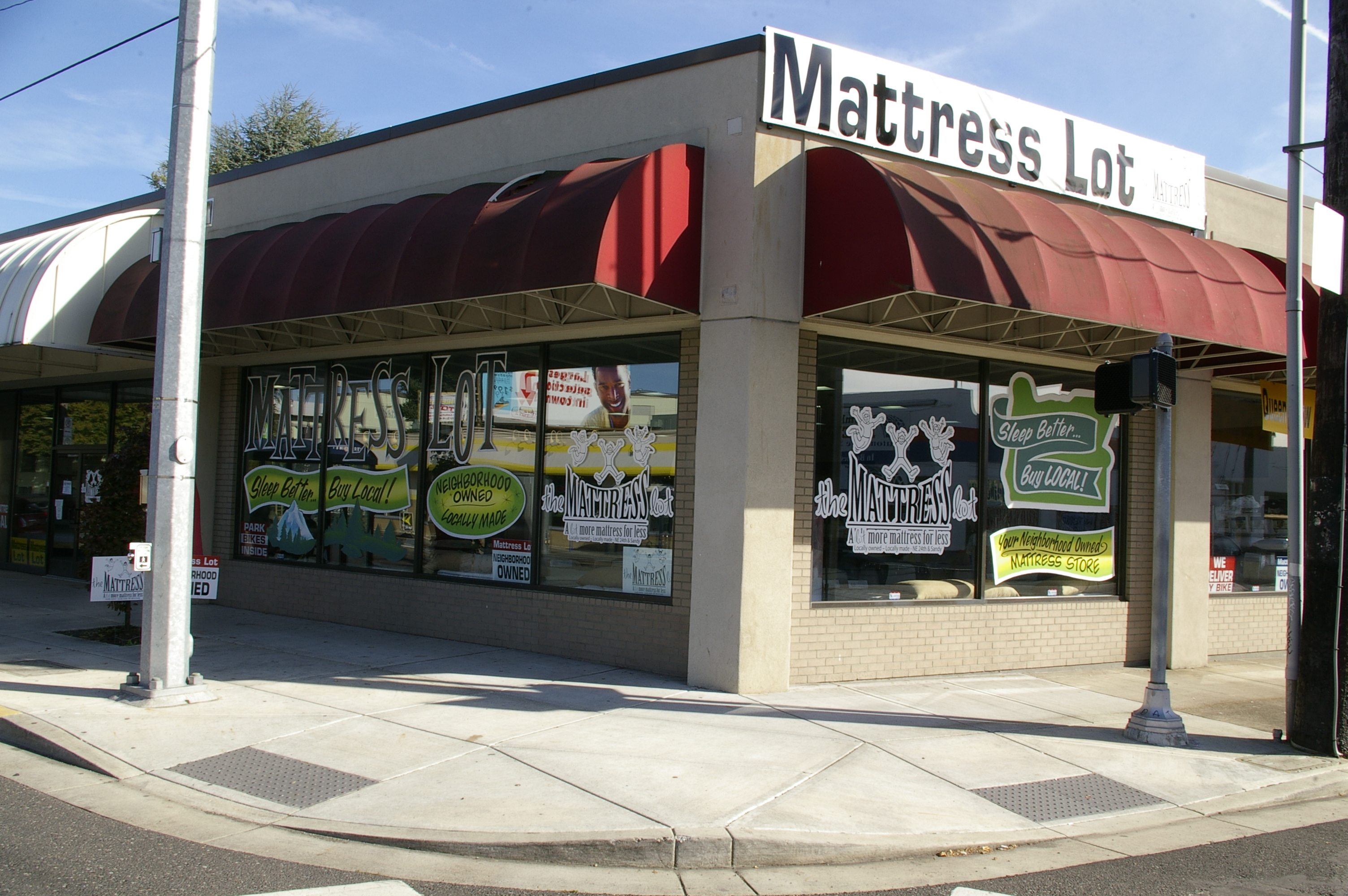 Mattress Lot on the corner of Sandy Boulevard and 24th Avenue.